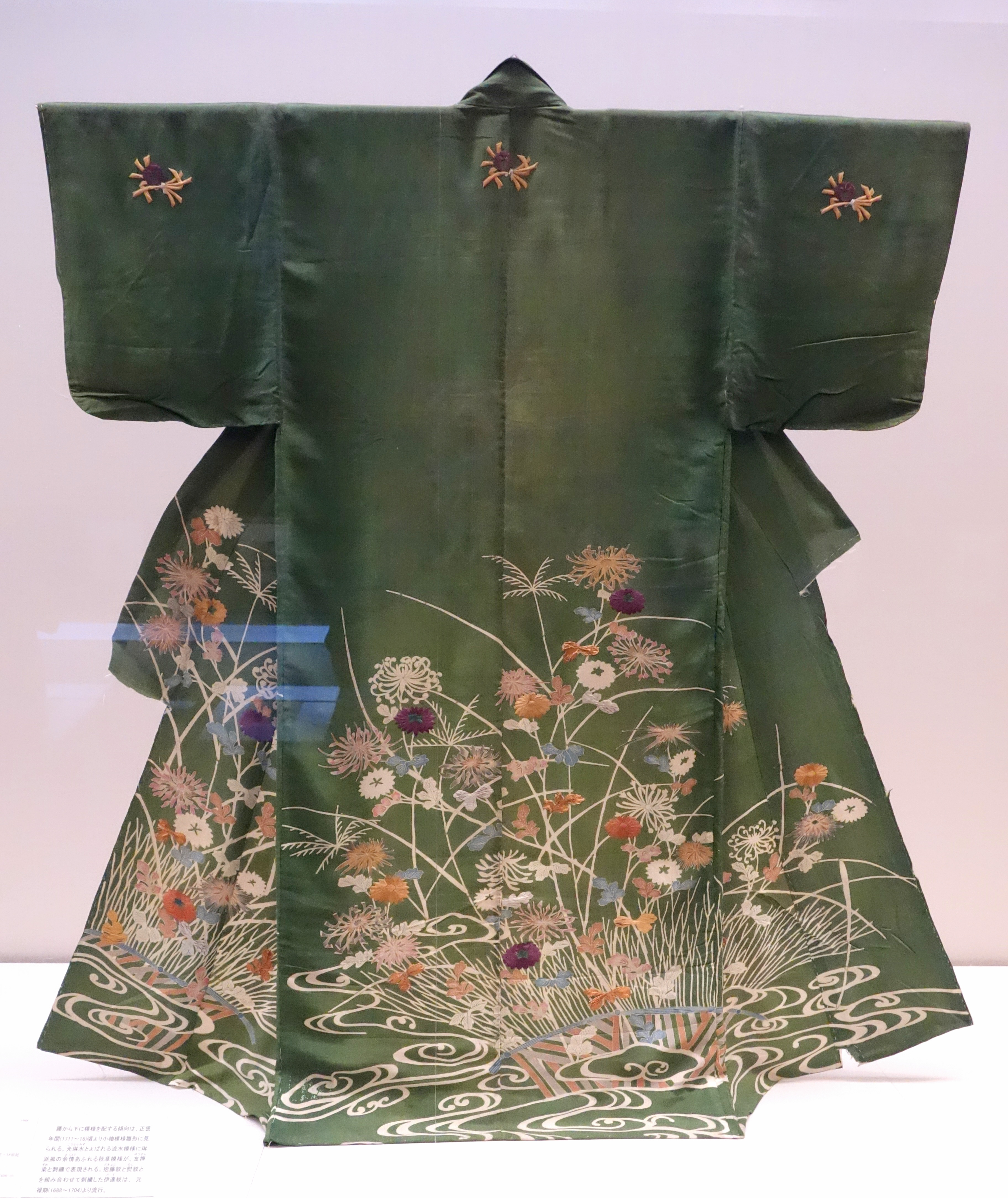 Exhibit in the Tokyo National Museum, Tokyo, Japan. This artwork is old enough so that it is in the public domain.